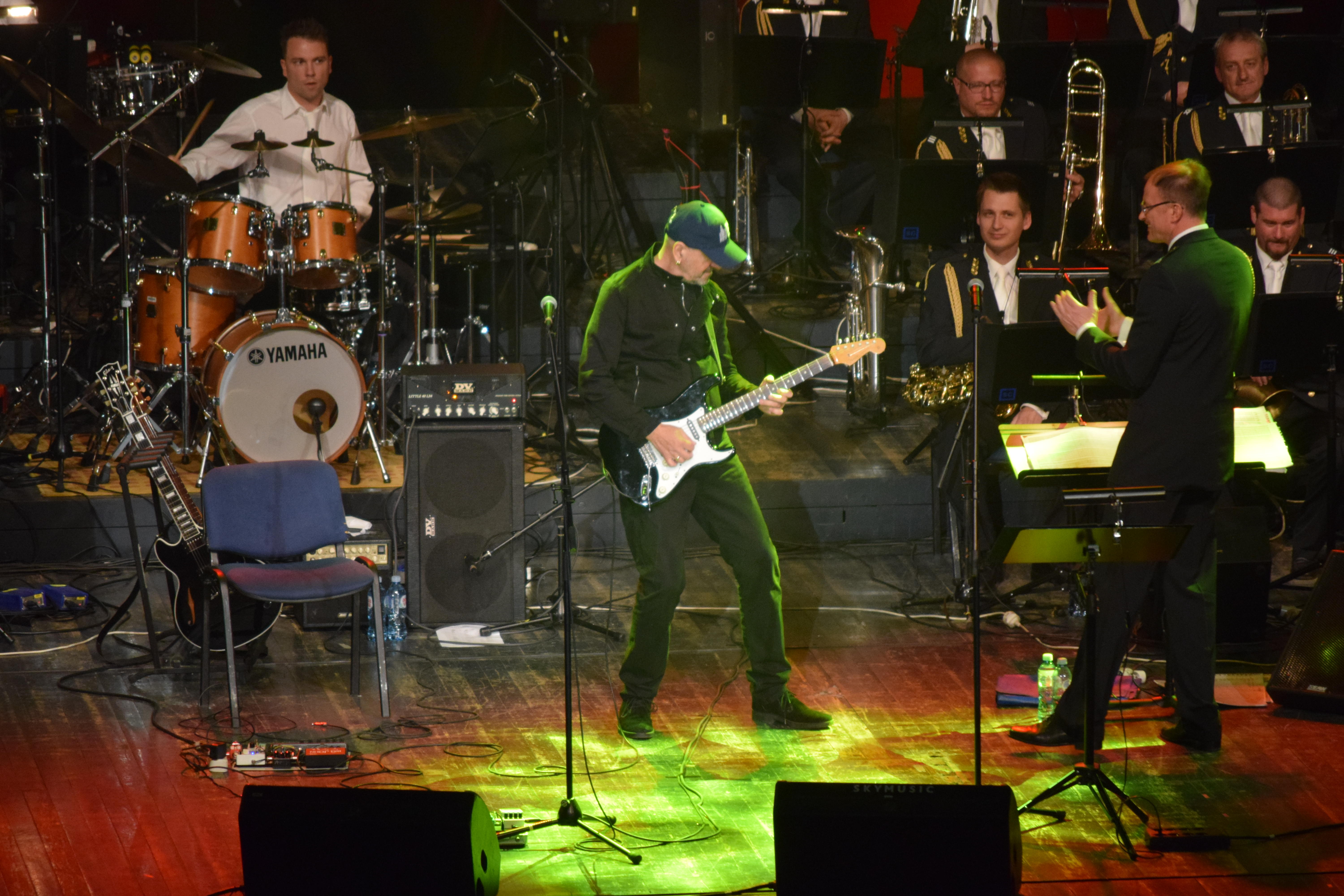 Vlatko Stefanovski with the Big Band Orchestra of the Slovenian Army on April 21, 2017 in the Sava Center in Belgrade (Serbia)